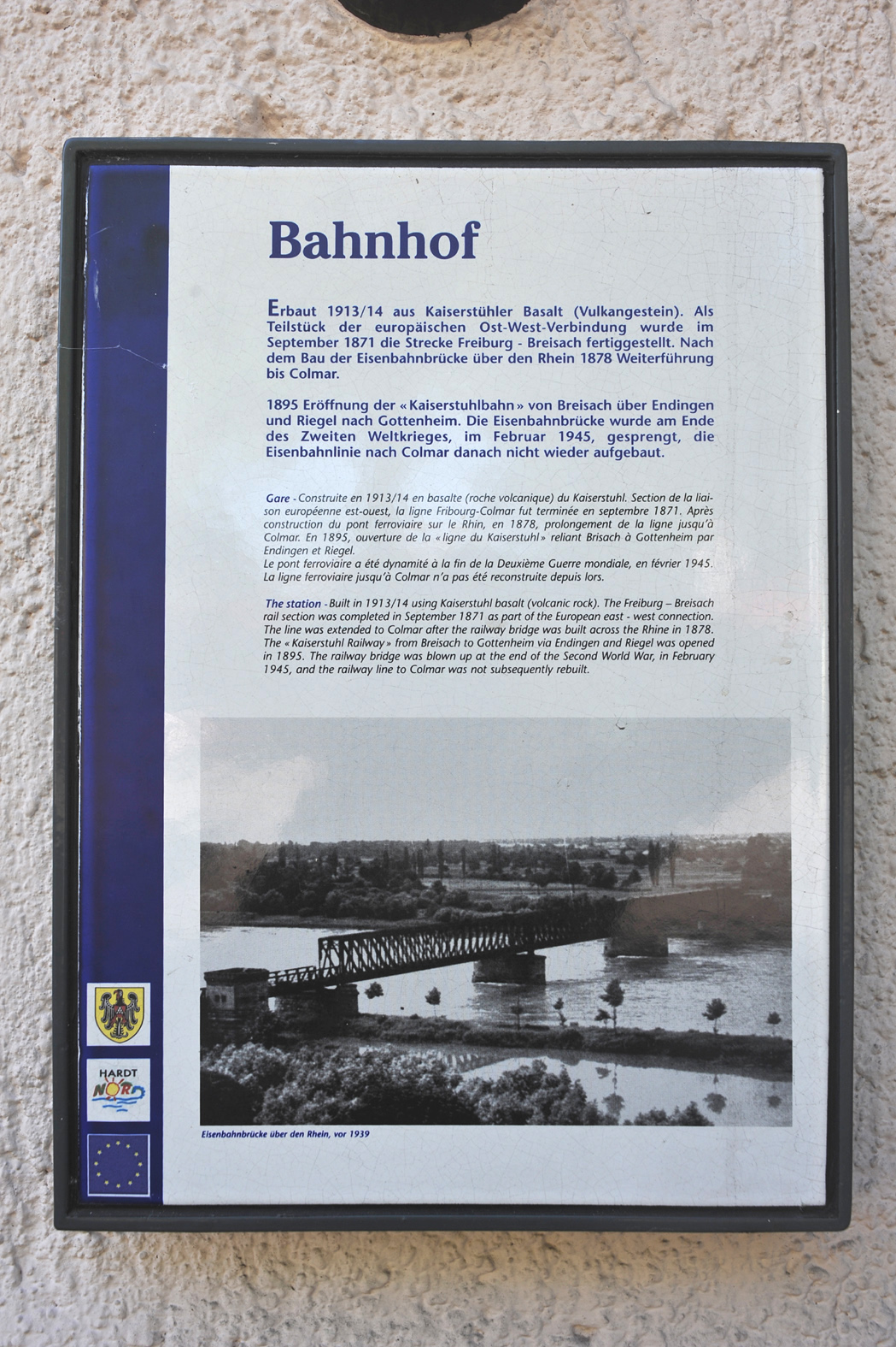 Breisach railway station; Baden-Württemberg, panel at the northern side of the railway station.